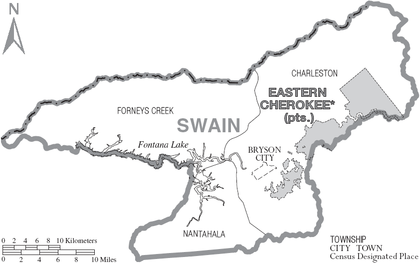 Map of Swain County, North Carolina, United States with township and municipal boundaries